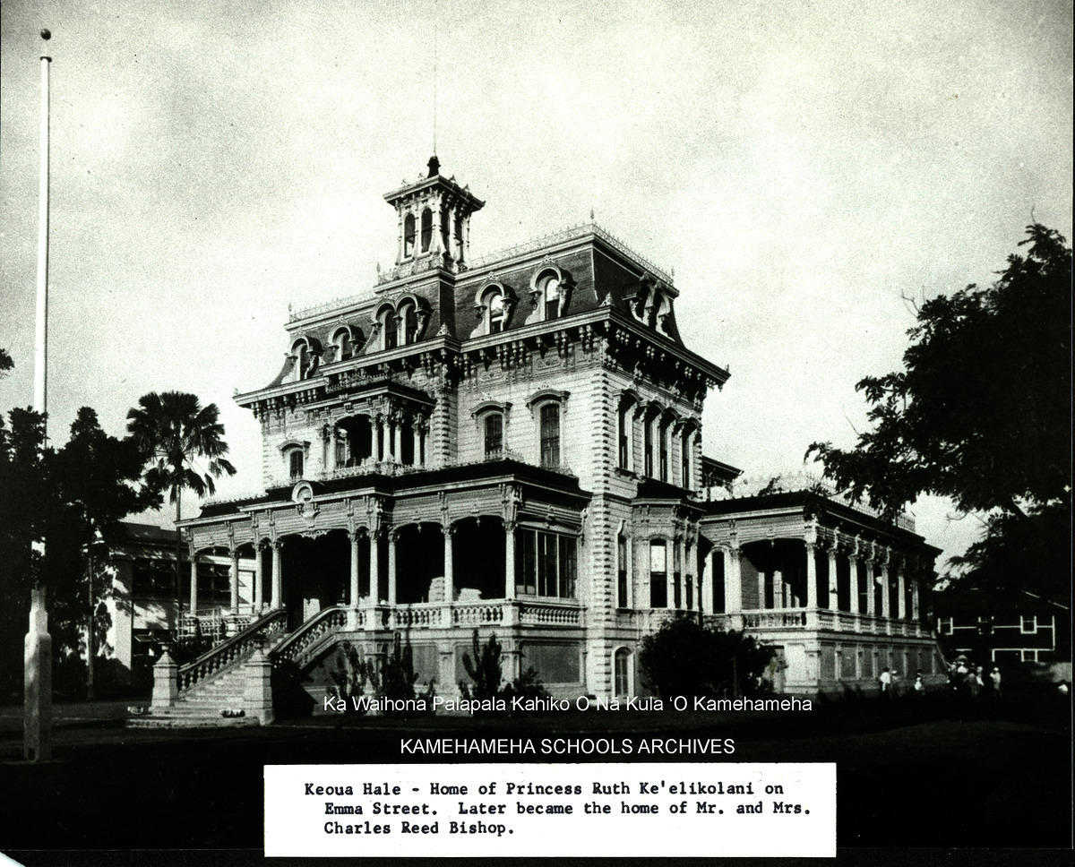 Keōua Hale, the residence of Princess Ruth Keelikolani in Honolulu